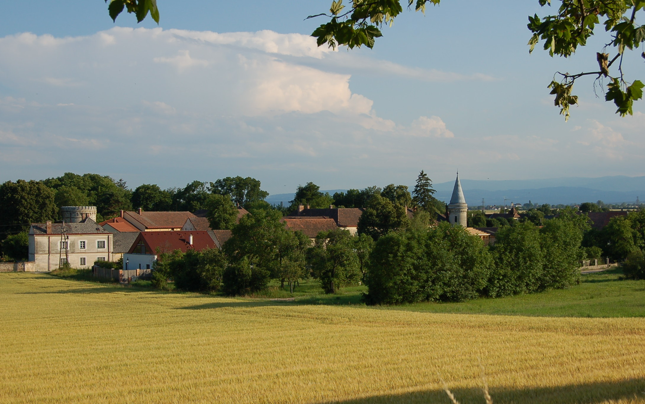 View of Brunn an der Schneebergbahn with Brunn palace